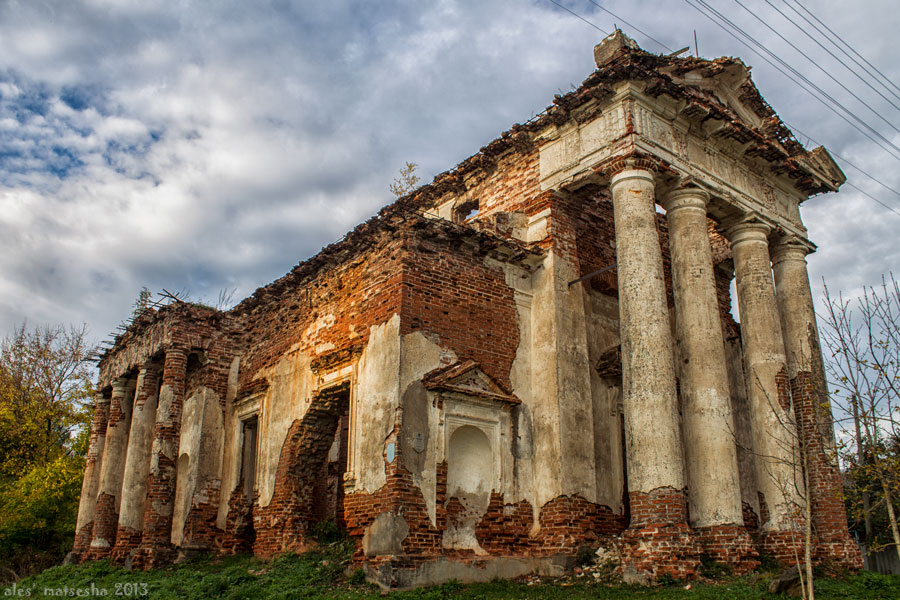 Church of St.Casimir in Rasna (1819), Belarus